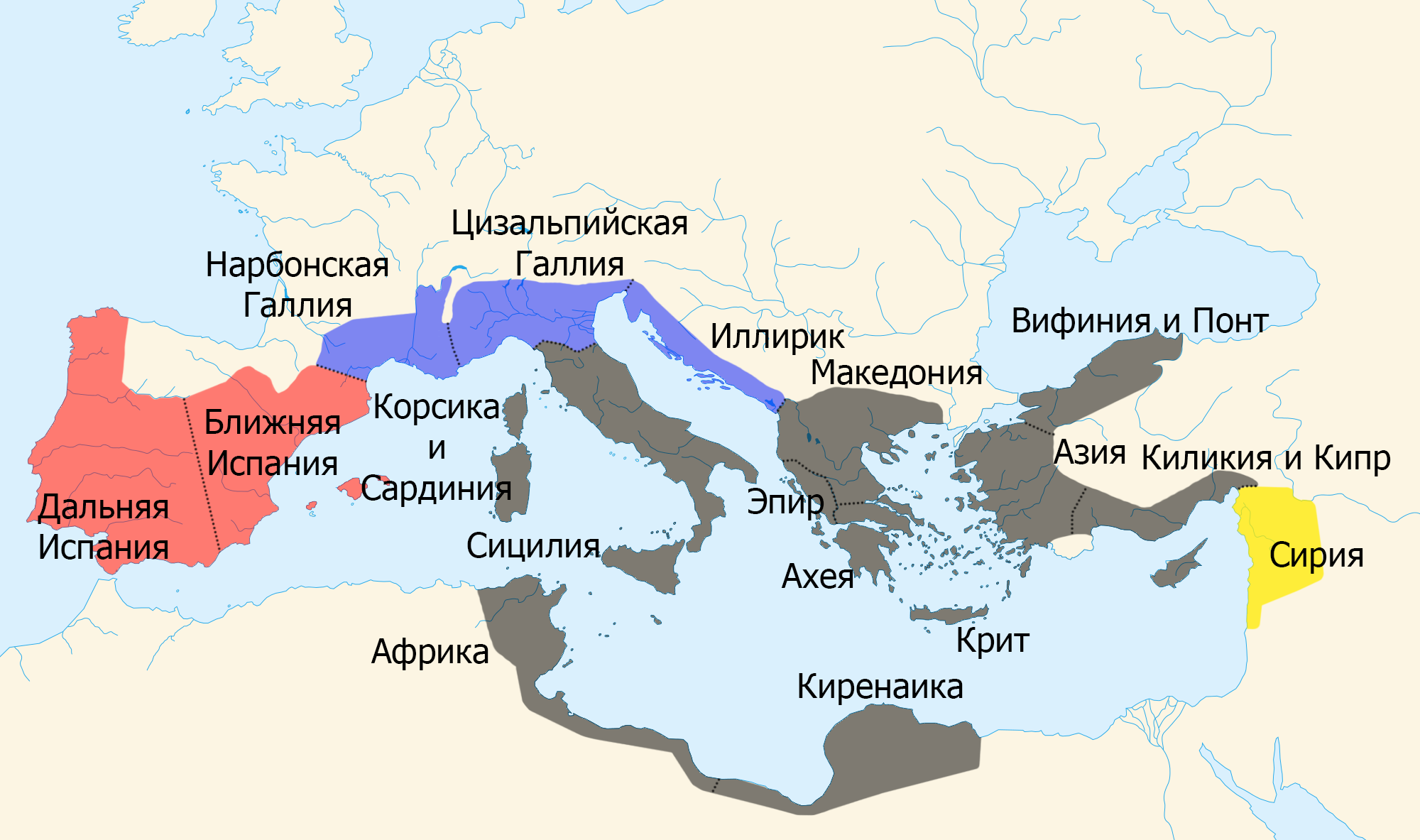 Division of Roman provinces between members of first triumvirate after Lucca conference in 56 BC Gnaius Pompeius Magnus: Hispania Citerior, Hispania Ulterior. Gaius Julius Caesar: Gallia Cisalpina, Gallia Narbonensis, Illyricum. Marcus Licinius Crassus: Syria. Other provinces of the Roman Republic.